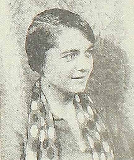 Anđelija Bunuševac Bingulac Anđa, one of the first female journalists in Serbia, worked in Politika newspapers. Српски (ћирилица): Анђелија Бунушевац-Бингулац Анђа, правница и једна од првих жена новинарки у Краљевини Србији, уредница и новинарка Политике.